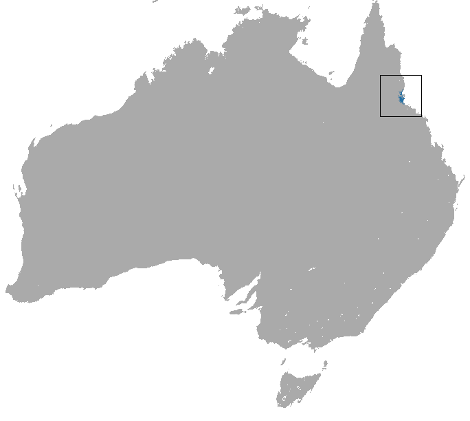 Mahogany Glider (Petaurus gracilis) range